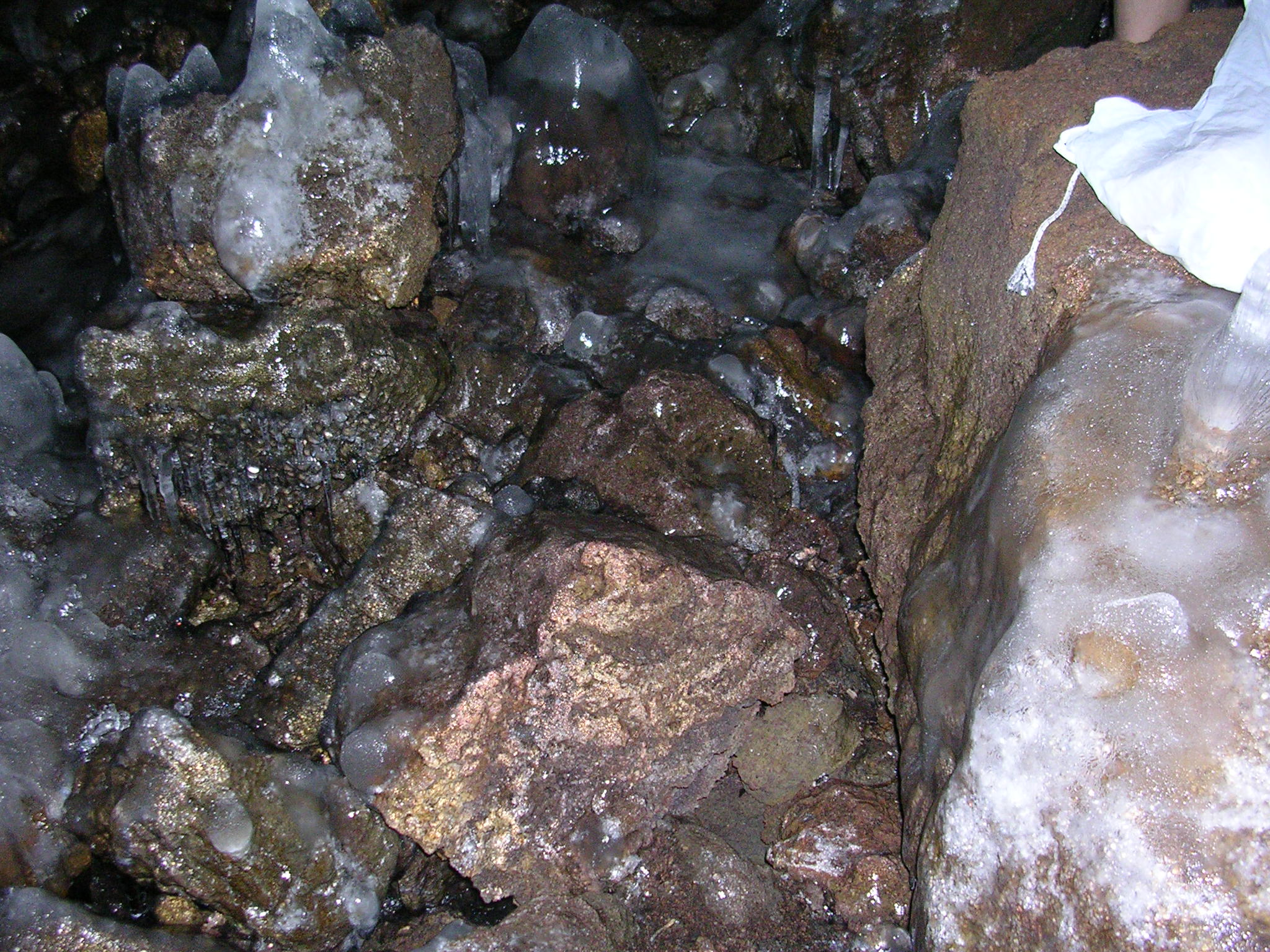 The floor of Grotta del Gelo, covered by ice